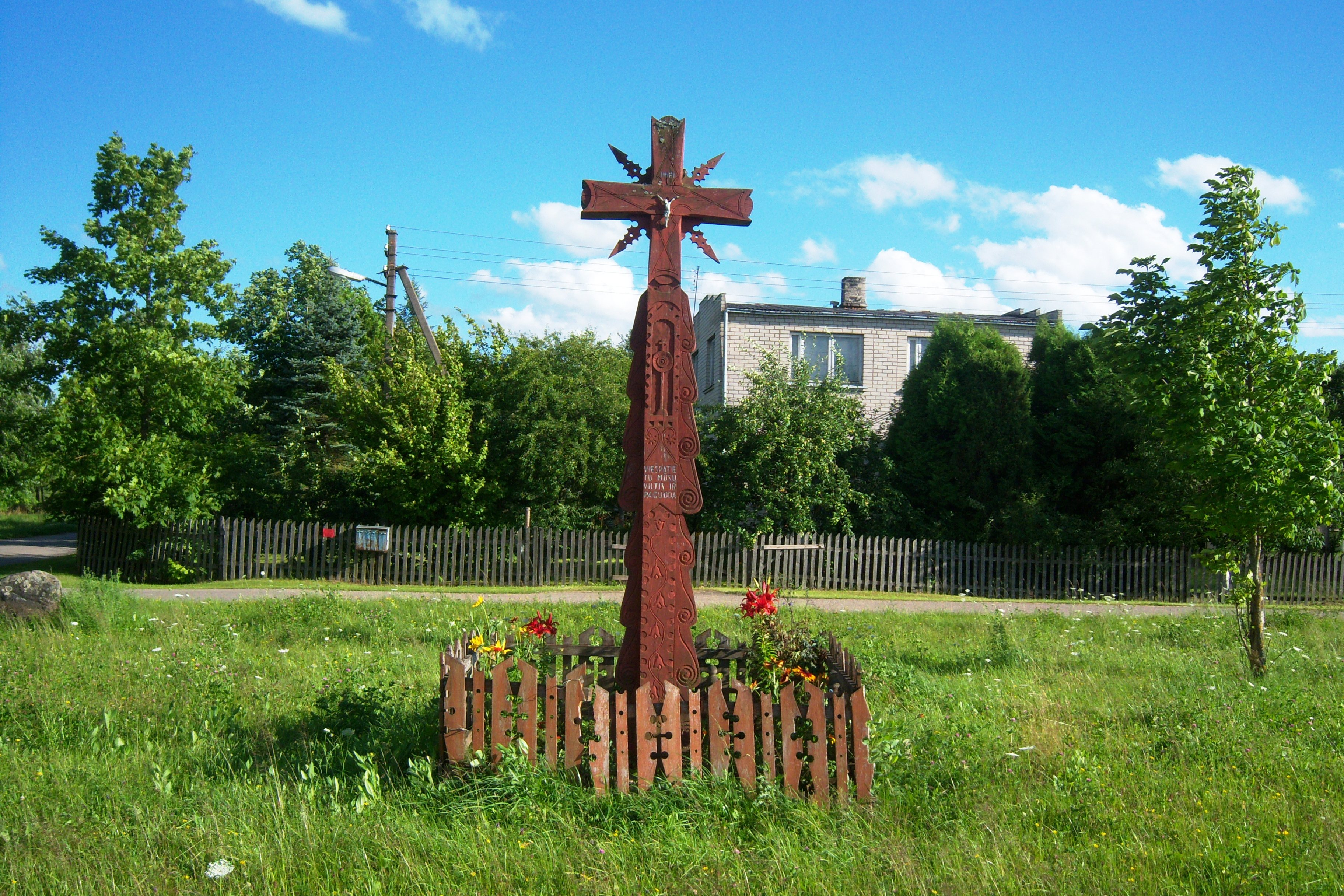 A wooden cross in Paaluonys, Kėdainiai district, Lithuania